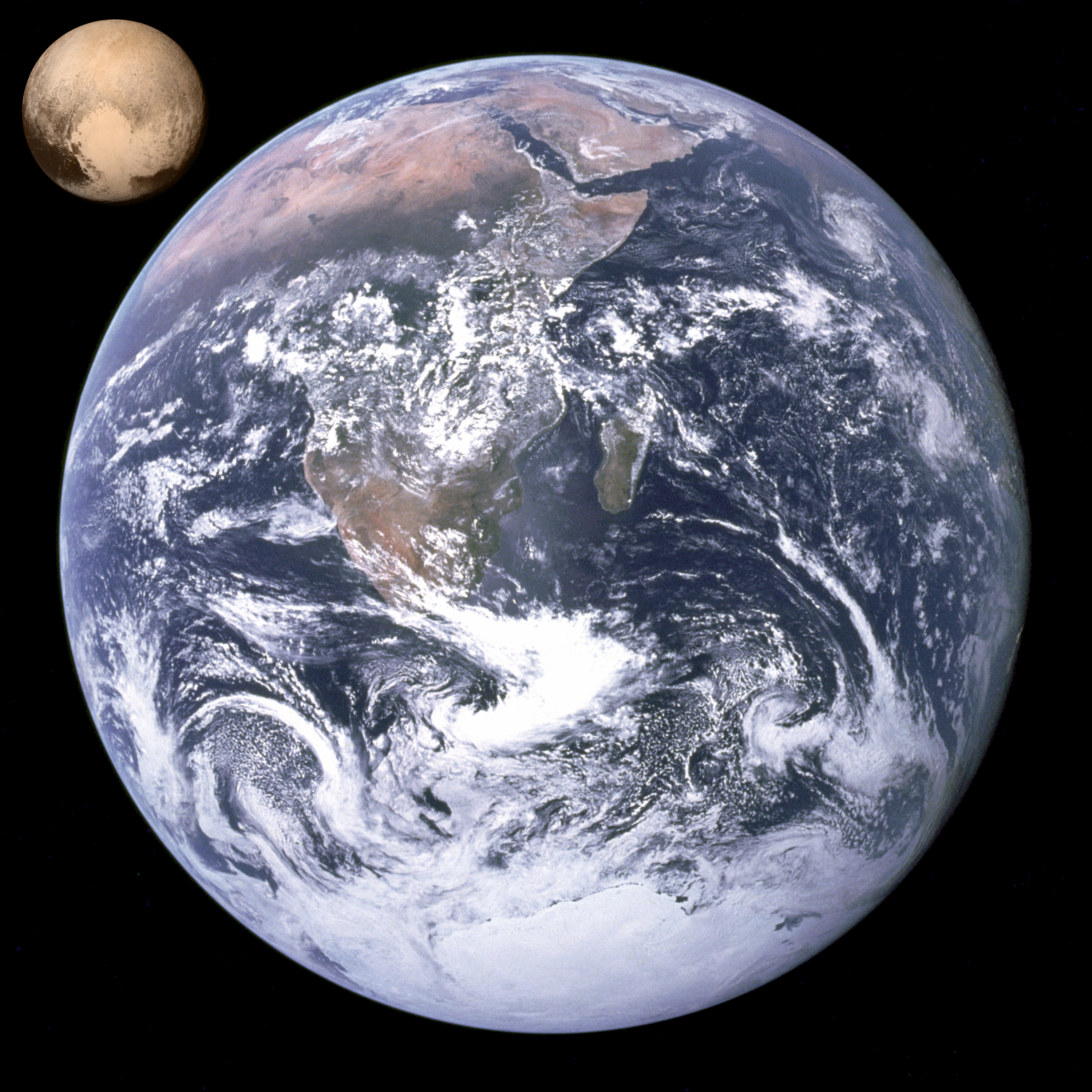 Rough comparison of the sizes of Earth and Pluto.